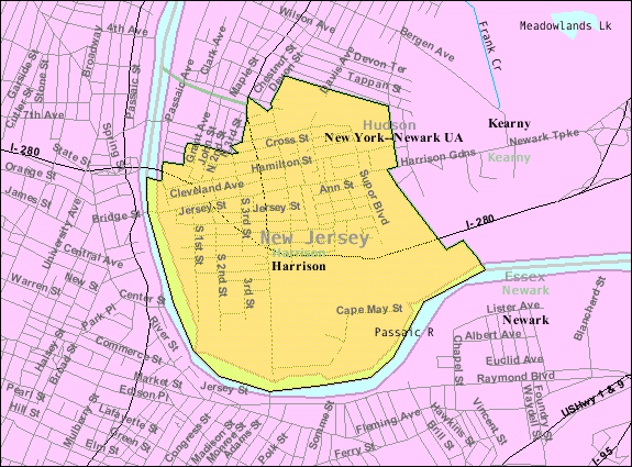 Census Bureau map of Harrison